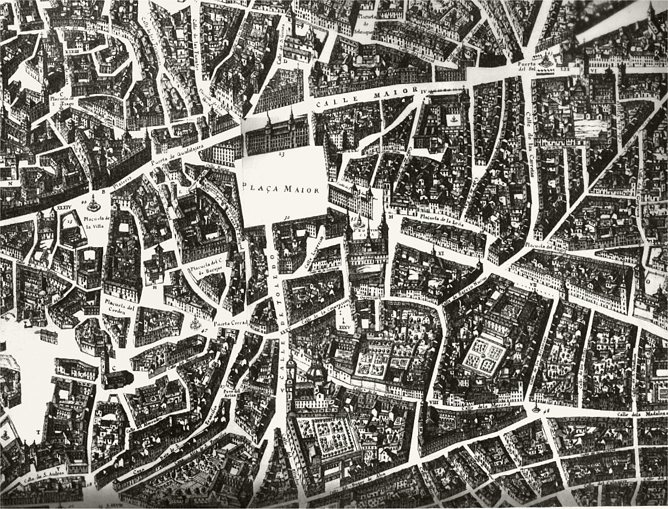 Map of Madrid (1656), detail. By Pedro Texeira.